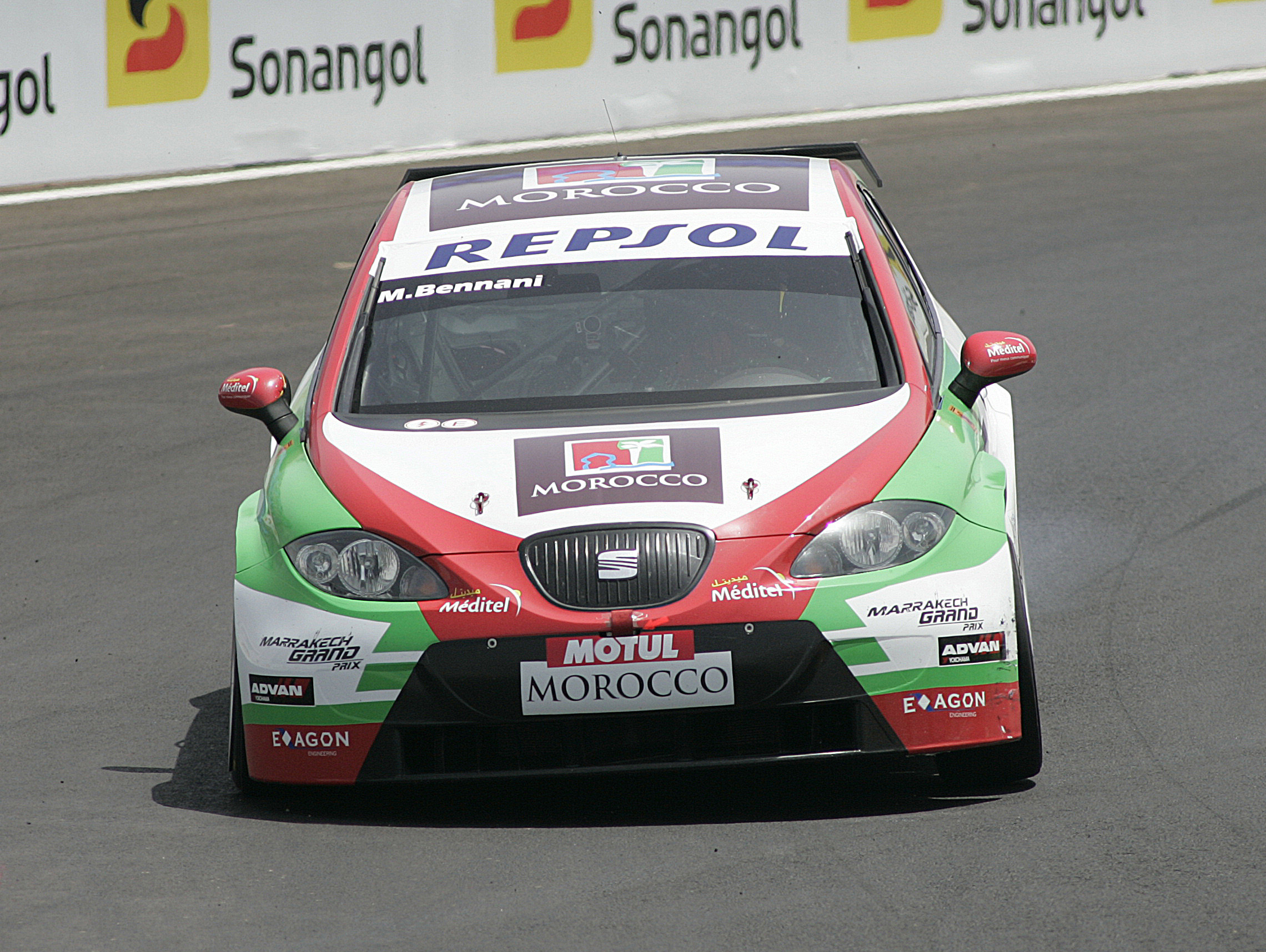 Mehdi Bennani driving SEAT Leon at Marrakech (2009 WTCC season).